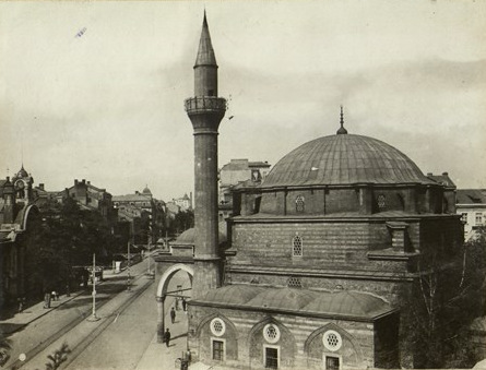 Bulgaria